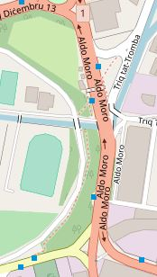 Triq Aldo Moro, Marsa, Malta